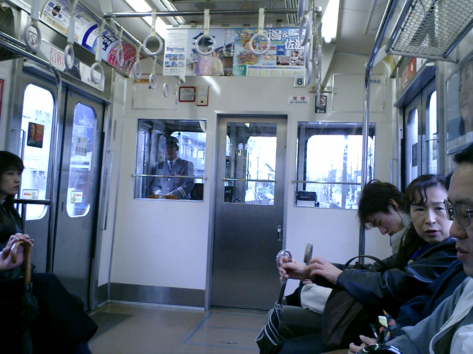 Tokyo Metro